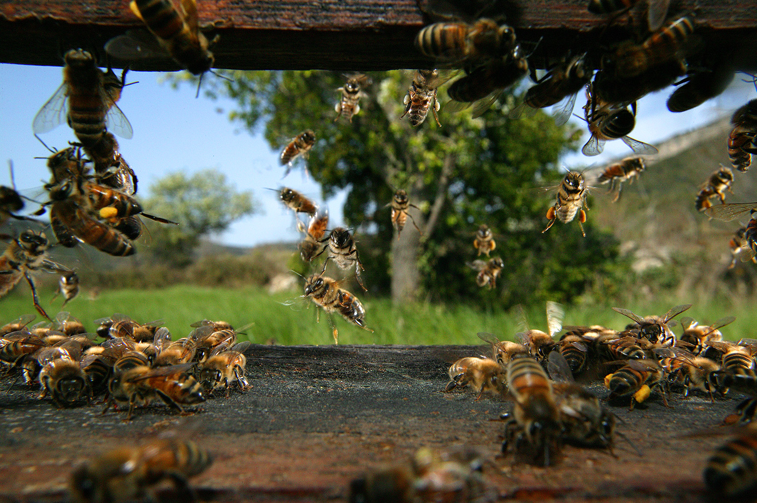 Stampede on the flight board. Observing intense bee activity from inside the beehive. Loaded with pollen, foragers return from their morning round. White or orange pollen, each bee concentrates on one flower species. A forager weigh 100 milligrams and can fly with a load of up to 70 milligrams.Francais: Bousculade sur la planche d’envol. De l’intérieur de la ruche, on observe l’intense activité des abeilles. Chargées de pollen, des butineuses reviennent de leur vol matinal. Pollens blancs, oranges, chaque abeille se concentre sur la récolte d’une espèce de fleur. Une butineuse pèse 100 mg et transporte en vol une charge de 70 mg répartie en 40 mg de nectar et 30 mg de pollen. Lors des grandes miellées, on peut compter plus de 25 000 sorties d’abeilles en une seule journée. 800 000 à 1 million de voyages sont nécessaires pour obtenir 10 kilos de miel.